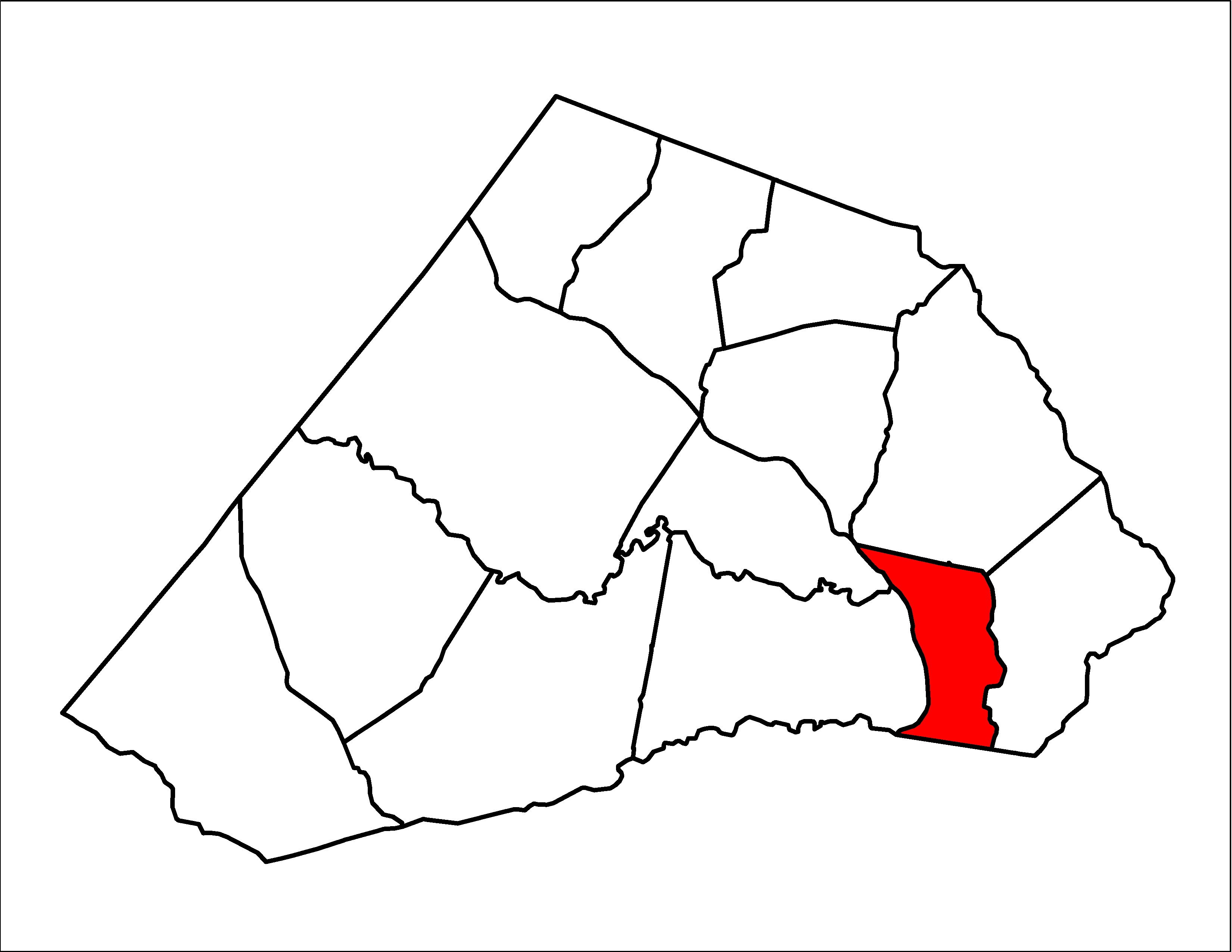 Map of Duke Township, Harnett County, North Carolina